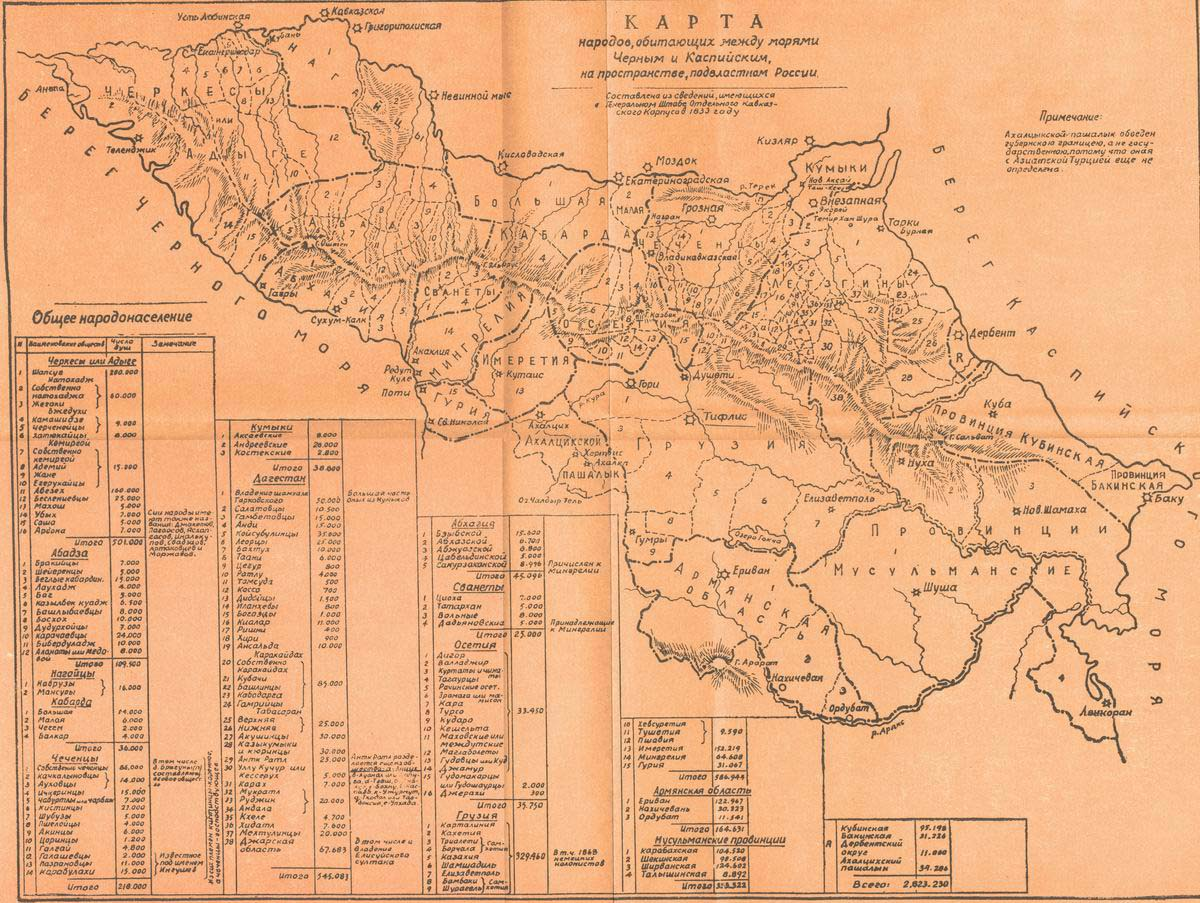 Map of Caucasus in Russian imperia